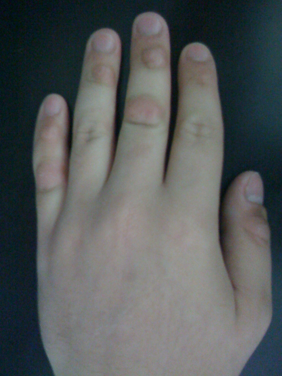 This is an image of my left hand, photographed 17 SEP 2008. Used to illustrate outward effects of dermatillomania and one of its symptoms. Disfiguration of the proximal and distal joints in the middle and little finger are distinct. Disfiguration of the distal joint of the ring finger is present, yet less apparent.